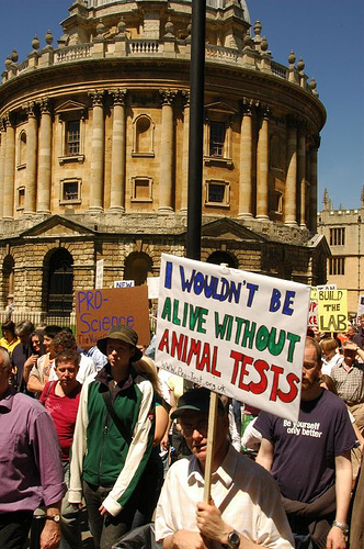 Protest in Radcliffe Square, Oxford, in support of medical tests on animals